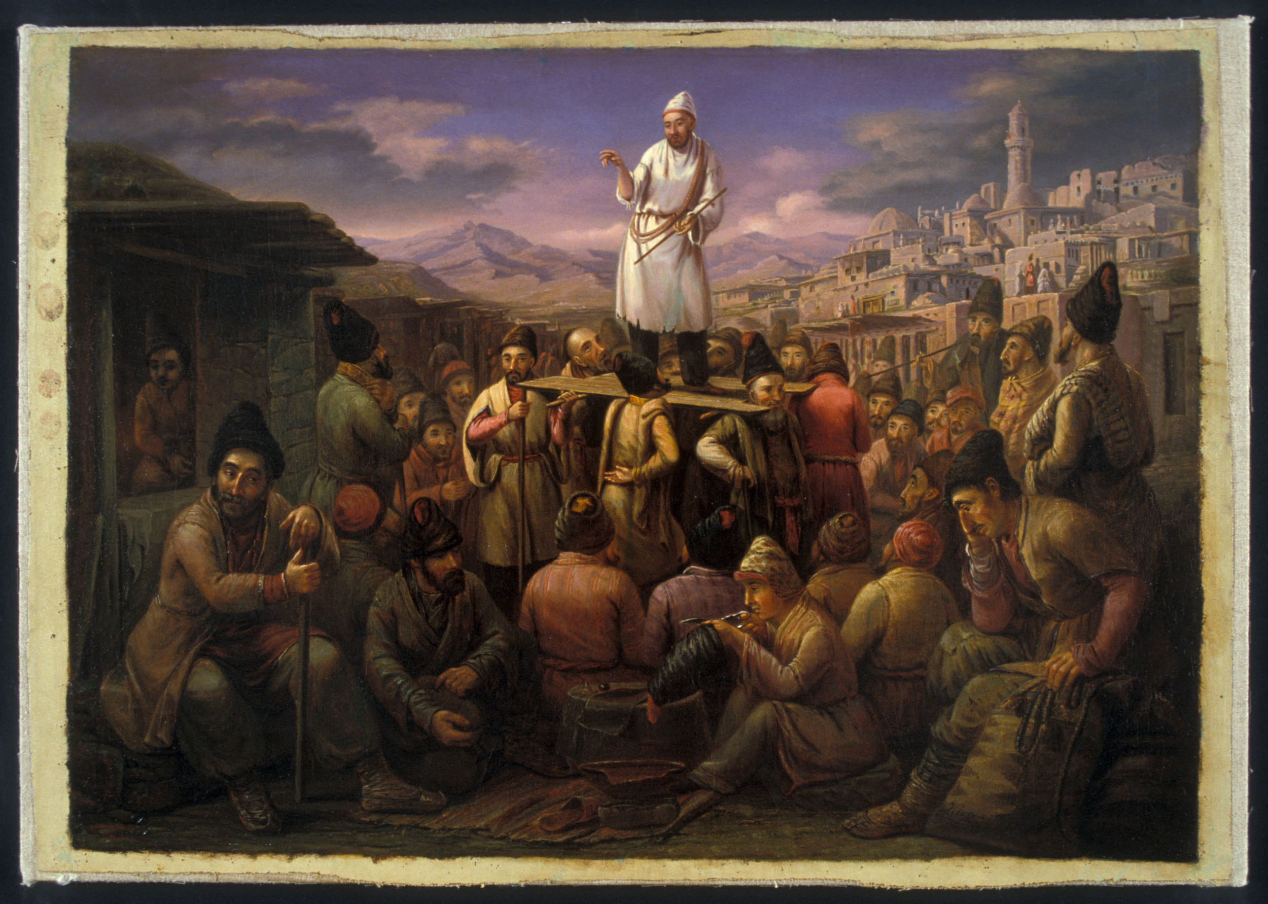 August Wilhelm Kiesewetter (1811-1865). Baku storytelling